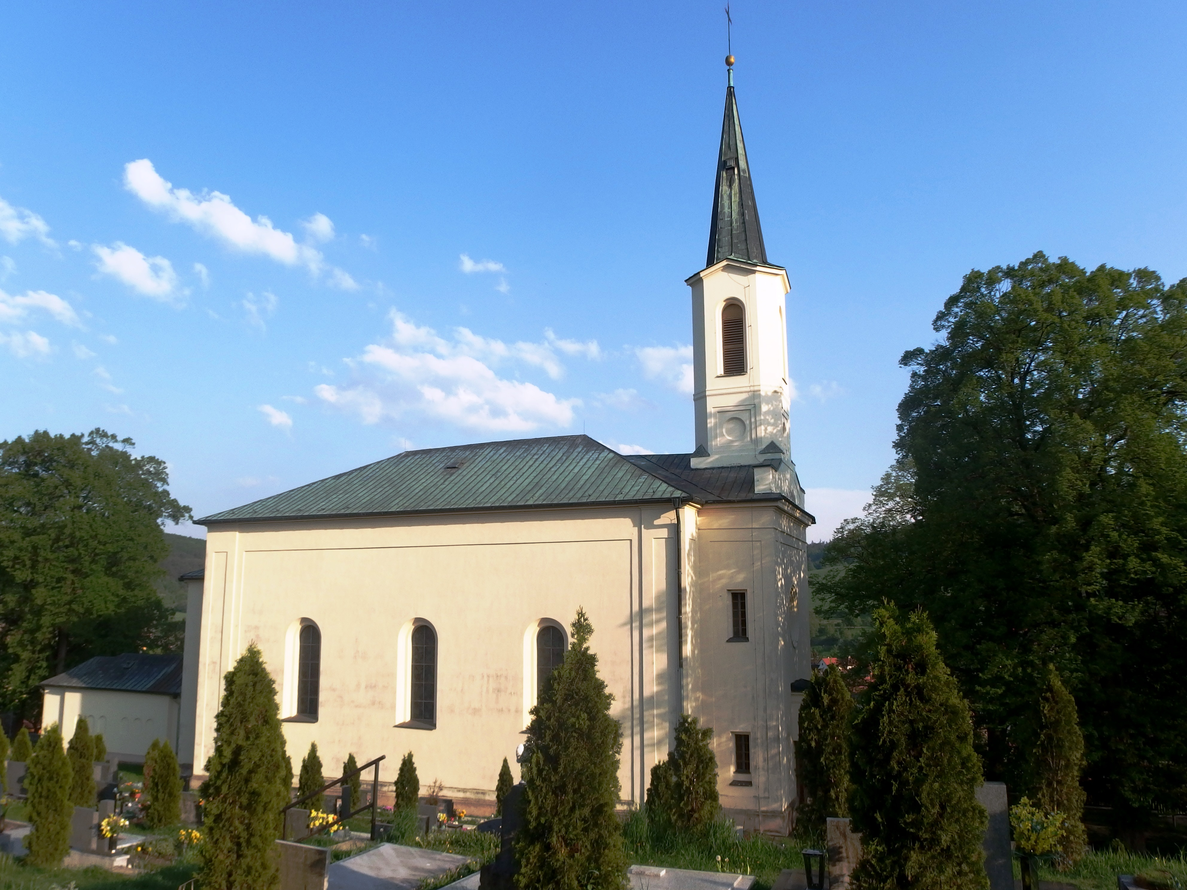 Pitín, Uherské Hradiště District, Czech Republic.